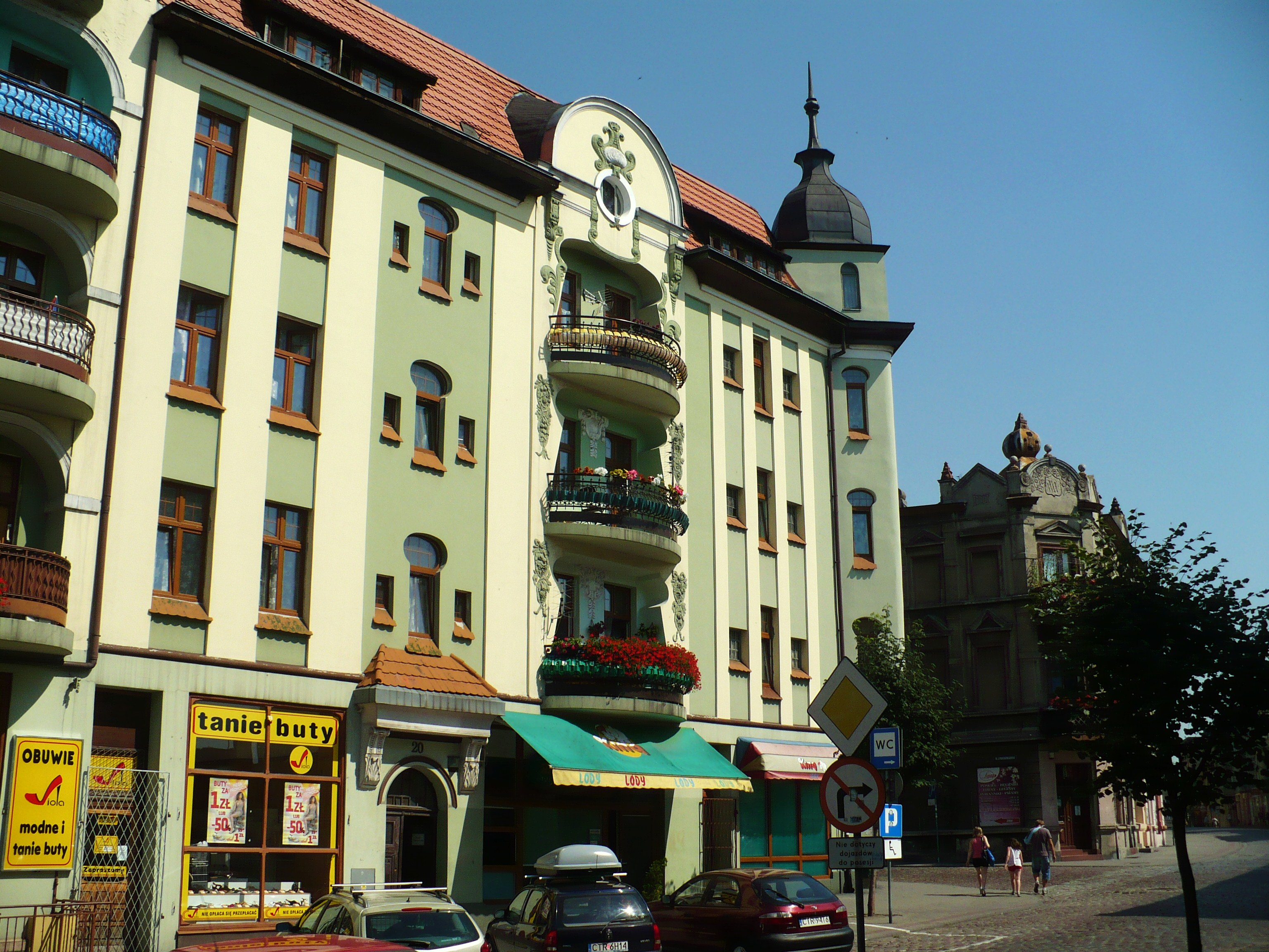 City of Chełmża,General Sikorski Street